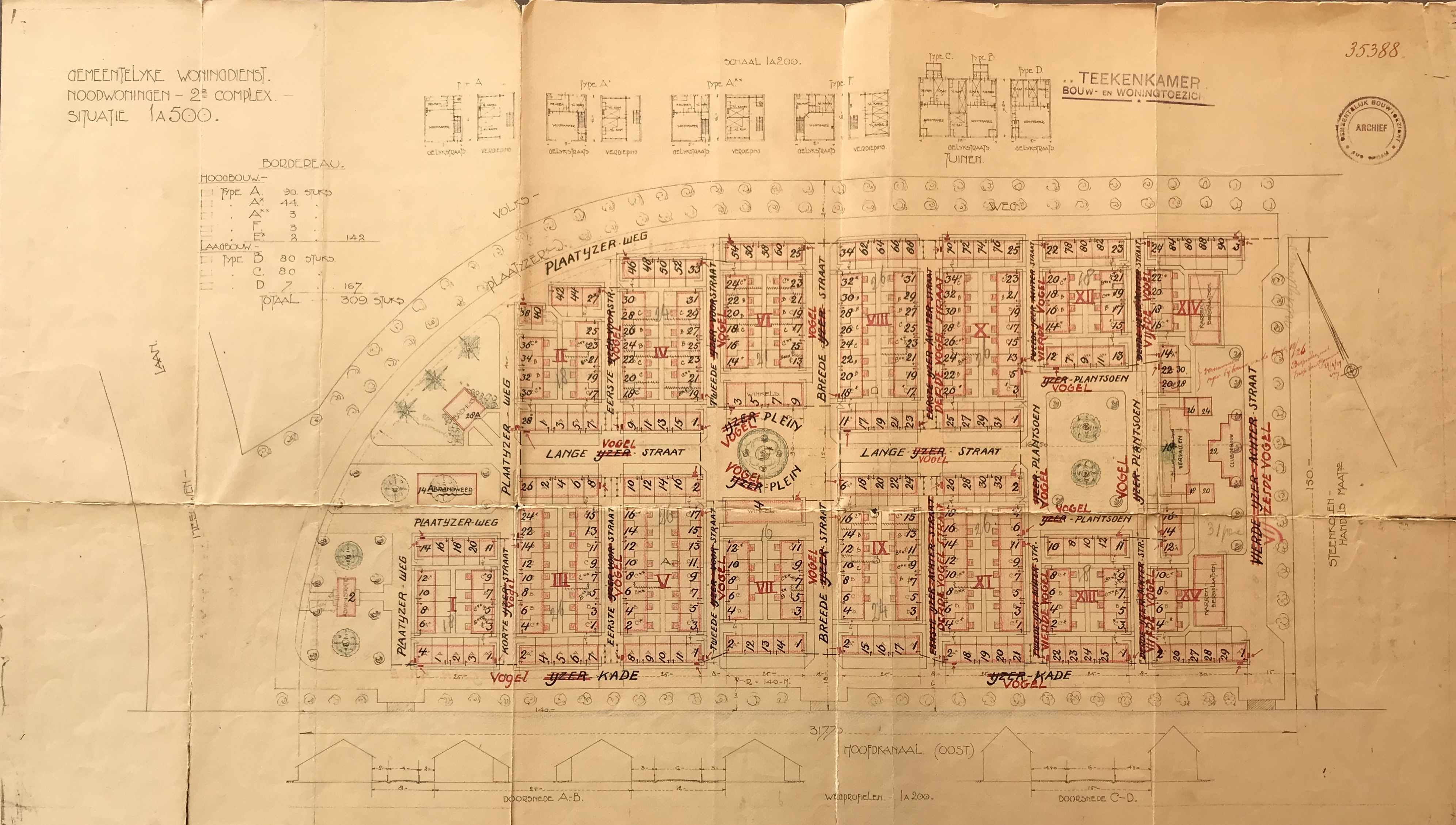 Map of Vogeldorp, a neighbourhood in the north of Amsterdam.